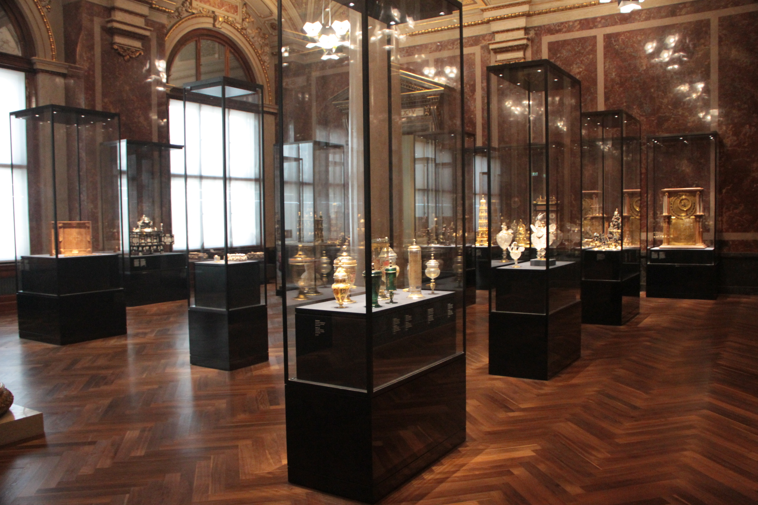 Kunstkammer Wien